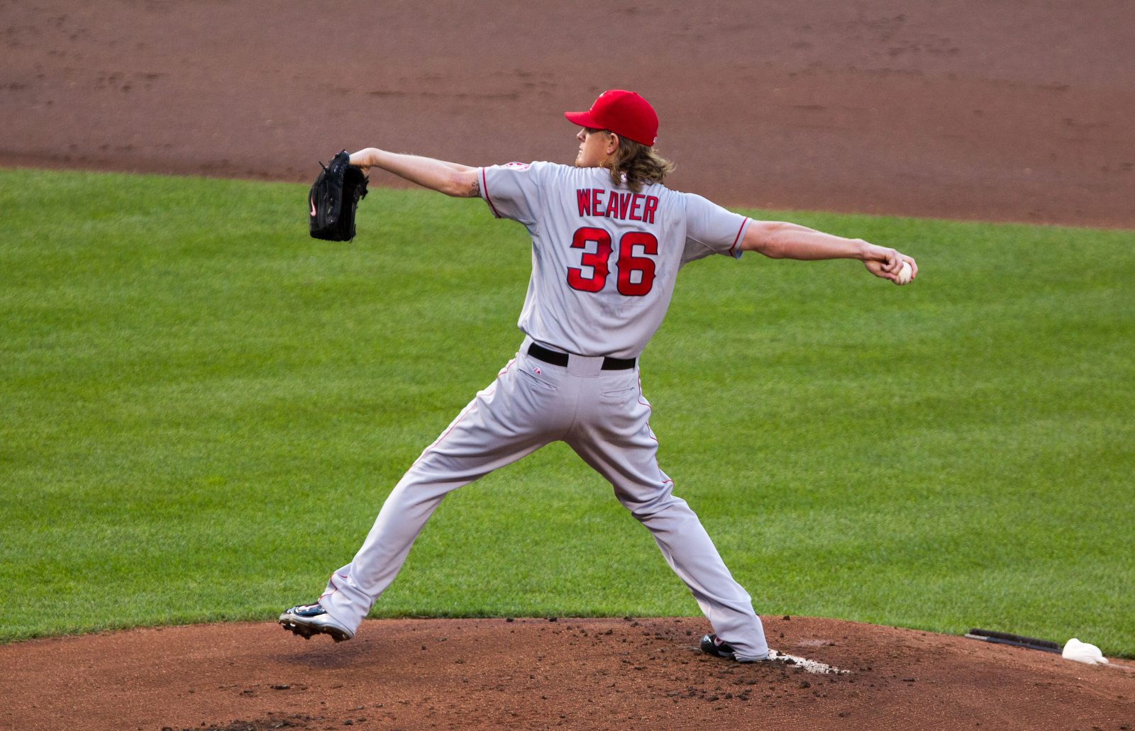 Jered Weaver during a game in June.